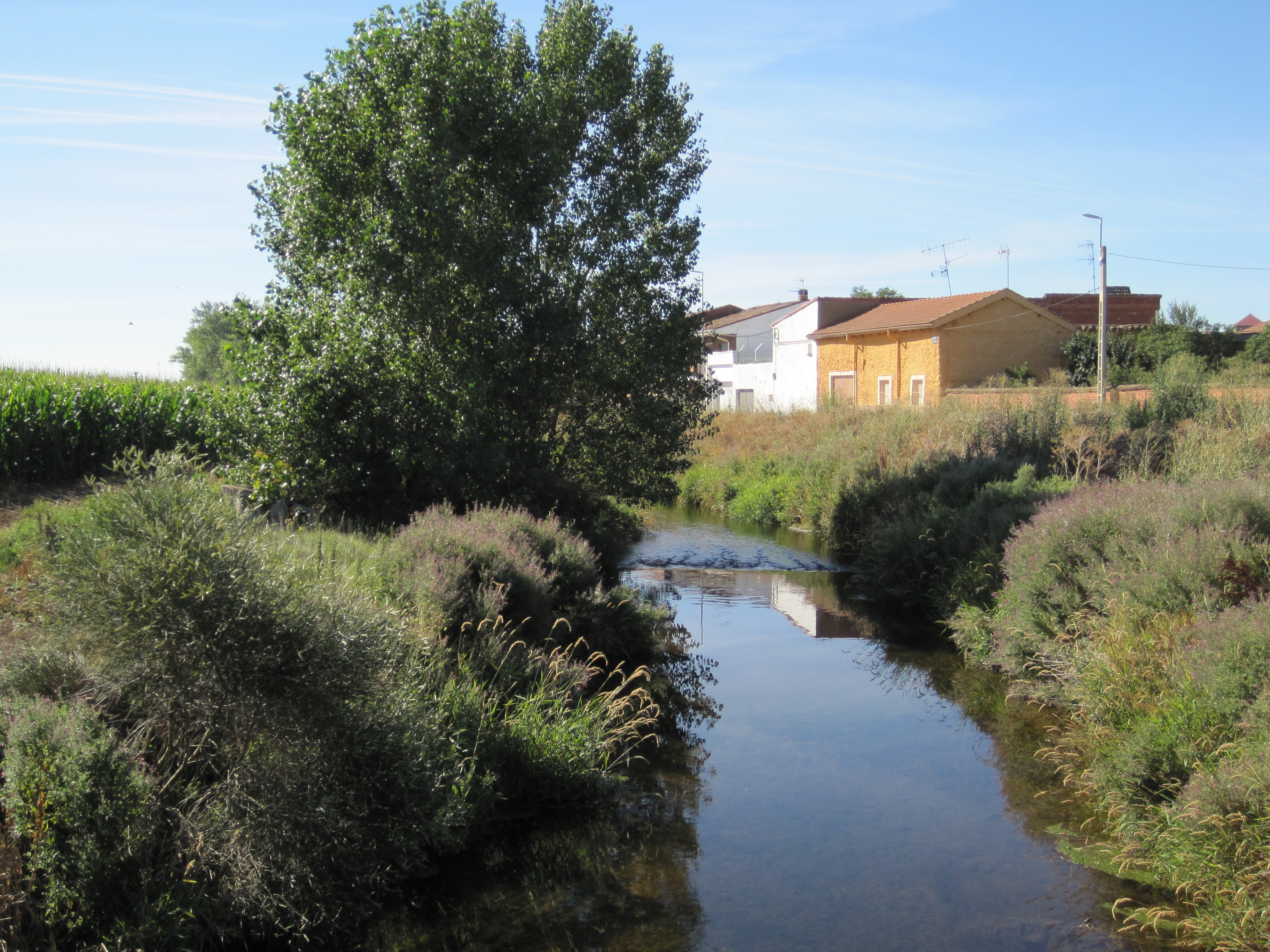 Imagen tomada en Bercianos del Páramo (León).